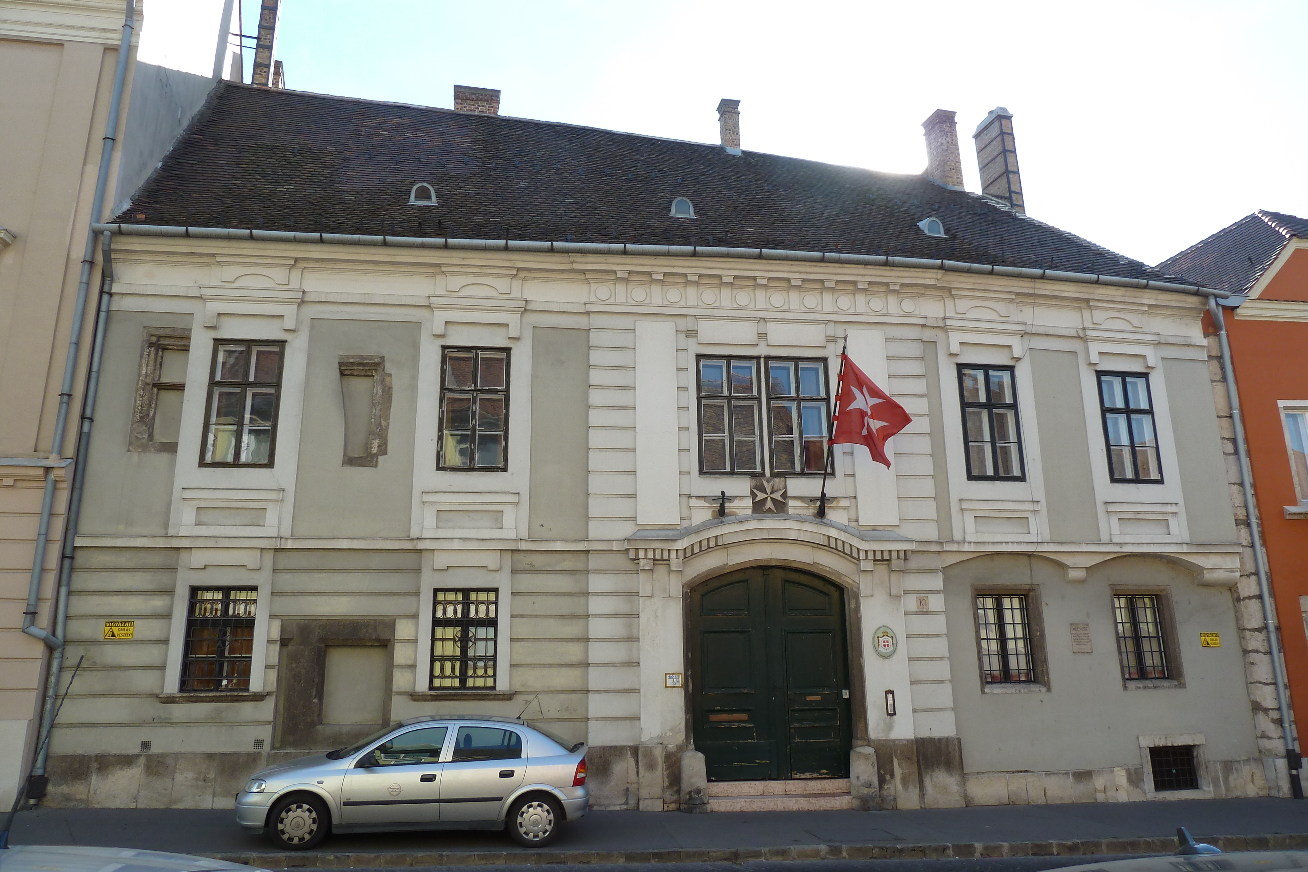 Embassy of the Sovereign Military Order of Malta in Budapest, Hungary